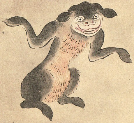 Yama-biko (a creature that creates echoes) from Hyakkai-Zukan